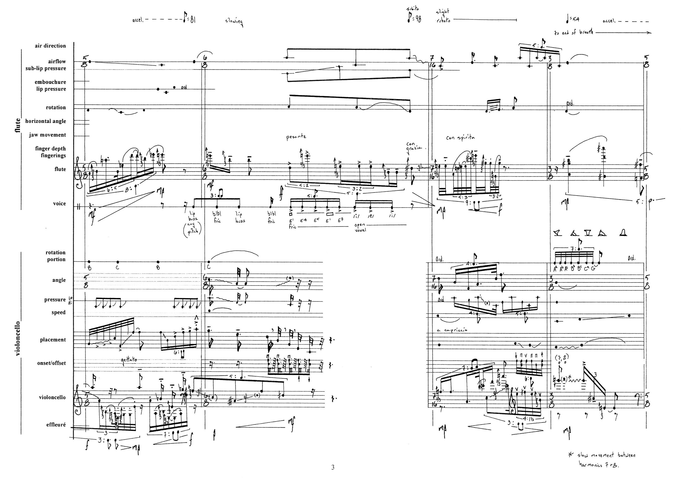 for flute and cello